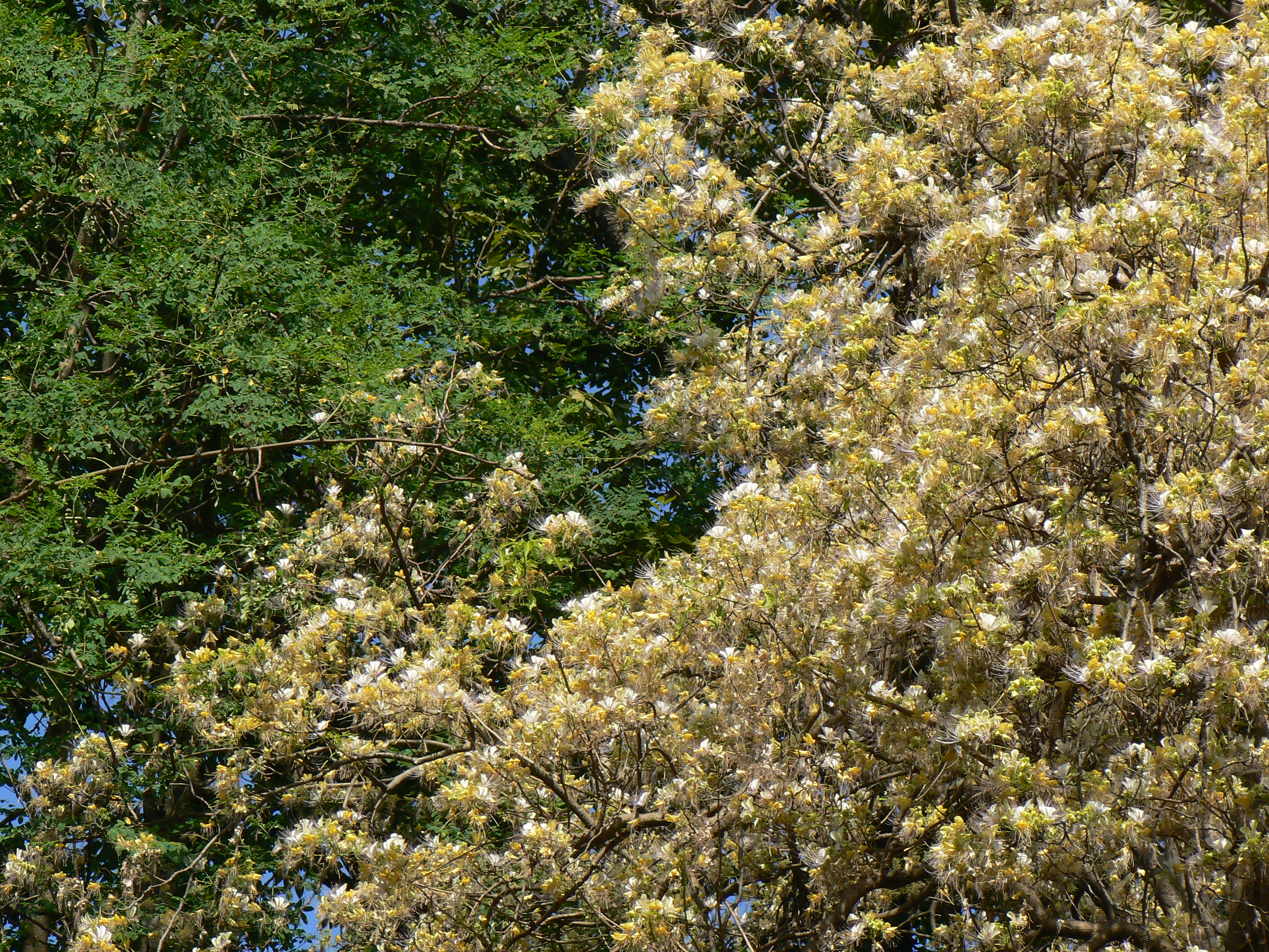 Capparaceae (caper family) » Crateva religiosa KRAY-tev-a -- named for Kratevas, Greek herbalist, renowned for his skill in poisoning re-lij-ee-OH-suh -- meaning, sacred commonly known as: garlic pear, obtuse leaf crateva, spider tree, temple plant, three-leaf caper • Bengali: বরুণ baruna • Hindi: बर्ना barna, बर्नी barni • Kannada: nirvala • Malayalam: nir mathalam • Manipuri: loiyumba lei • Marathi: बिल्व bilwa, वरुण varun, वायवरणा vaywaran • Sanskrit: वरण varan, वरुण varun • Tamil: மாவிலிங்கம் marvilingam • Telugu: ఉలిమిడి ulimidi, వరుణ varuna, voolemara Origin: Southeast Asia, Japan, Australia, south Pacific islands ... flowers white, or cream in many flowered terminal corymbs. References: Flowers of India • Dave's Garden • EcoPort • Wikipedia